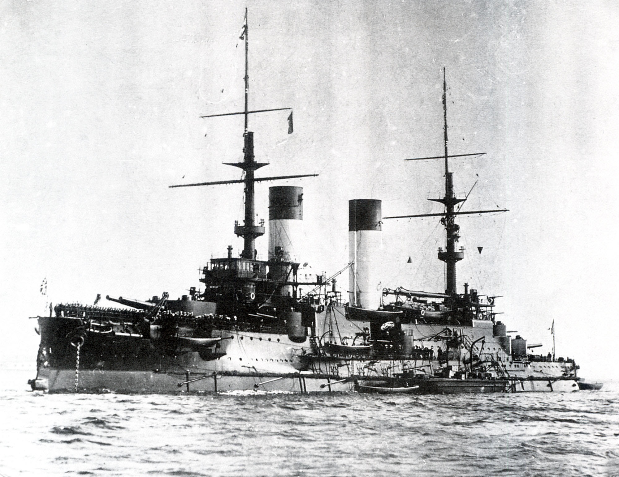 Imperial Russian battleship Knyaz' Suvorov in Kronshtadt, August 1904.